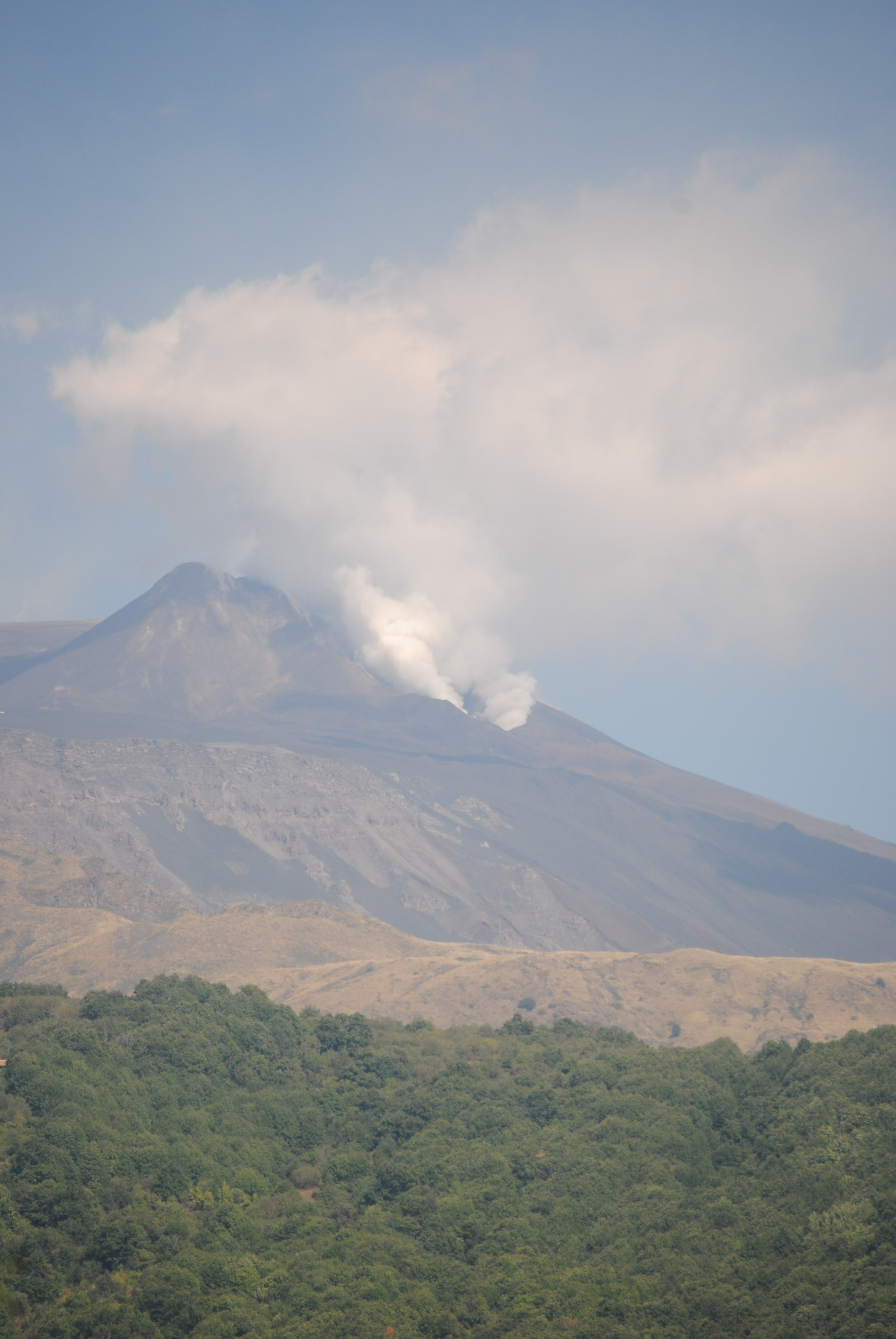 Etna eruption of September 2010